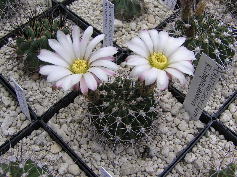 Acanthocalycium spiniflorum - syn: Acanthocalycium klimpelianum